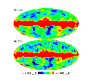 Data obtained by COBE at each of the three DMR frequencies - 53, and 90 GHz - following dipole subtraction. (NASA image) from